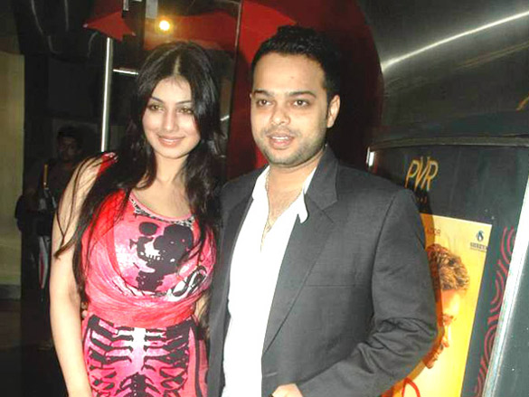 Ayesha with azami